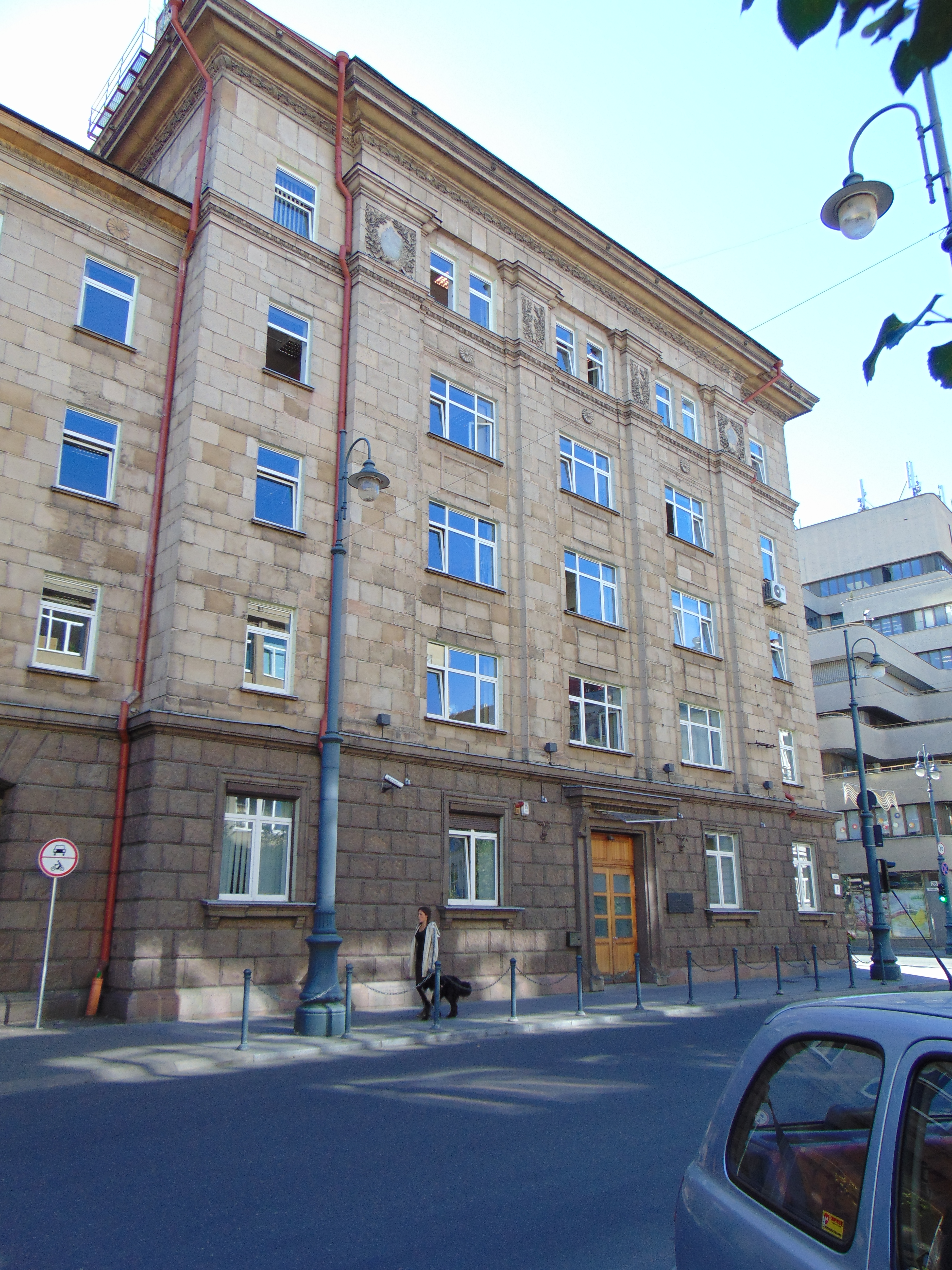 Department of Customs